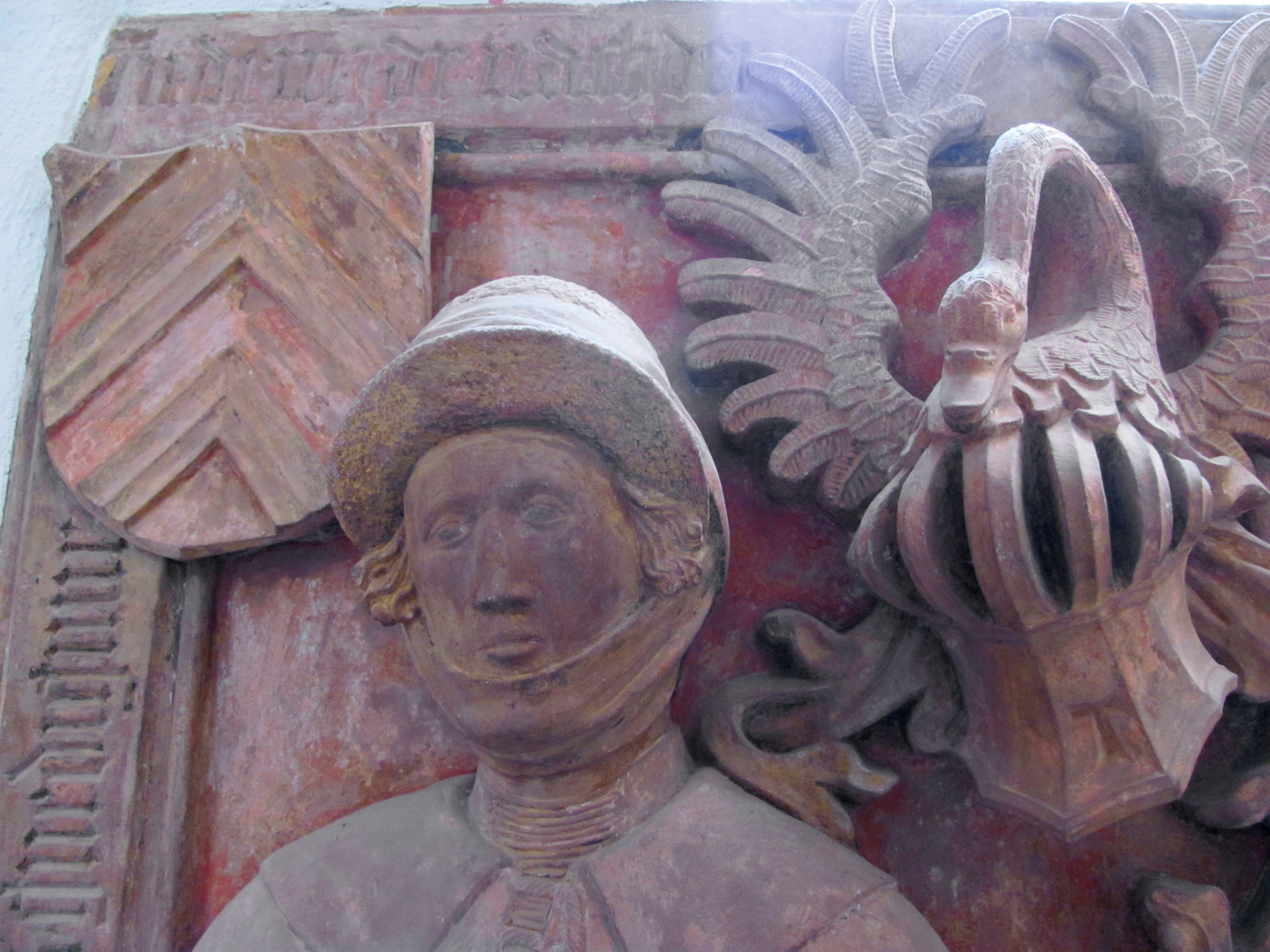 Count Philipp I (the older) of Hanau(-Lichtenberg)